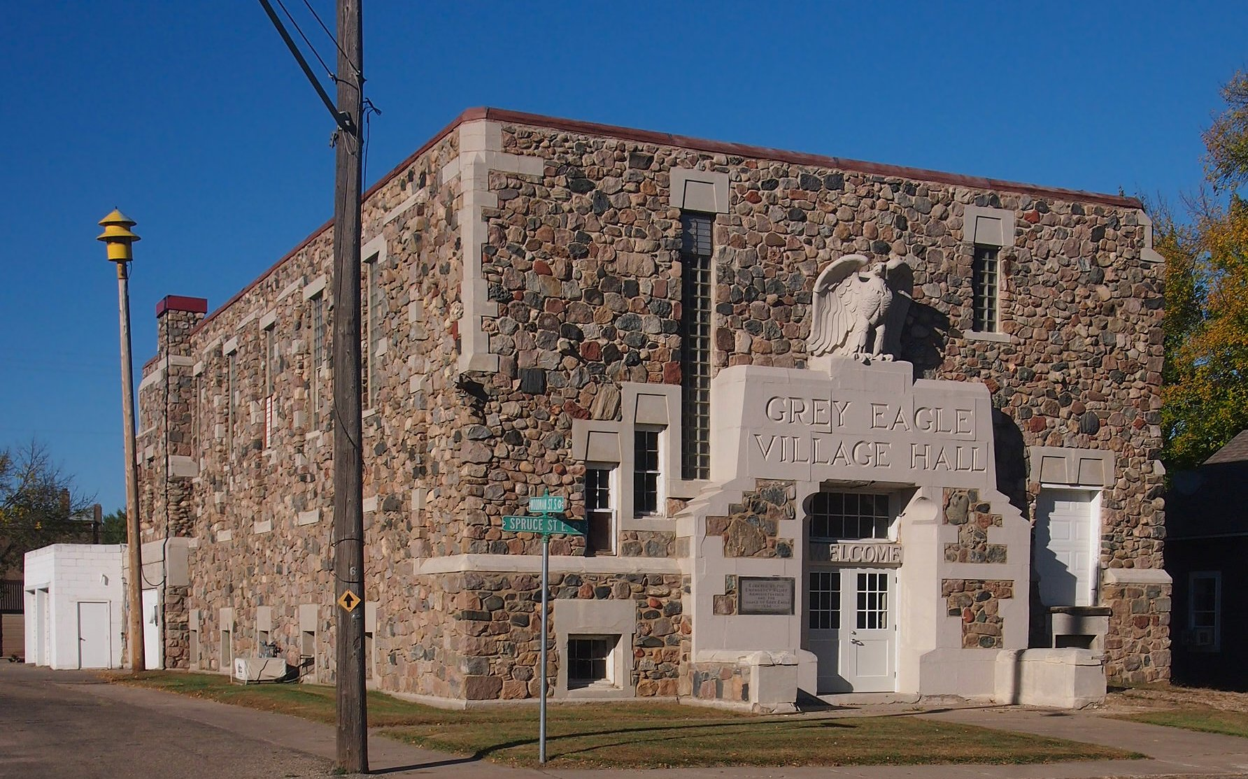 Grey Eagle Village Hall, Grey Eagle, Minnesota, USA. Viewed from the southwest.